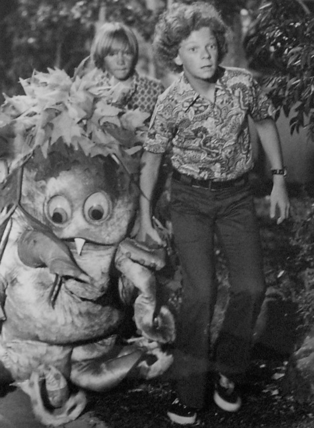 Photo from the premiere of the television program Sigmund and the Sea Monsters. From left: Billy Barty (Sigmund), Scott Kolden (Scott Stuart), Johnny Whitaker (Johnny Stuart).